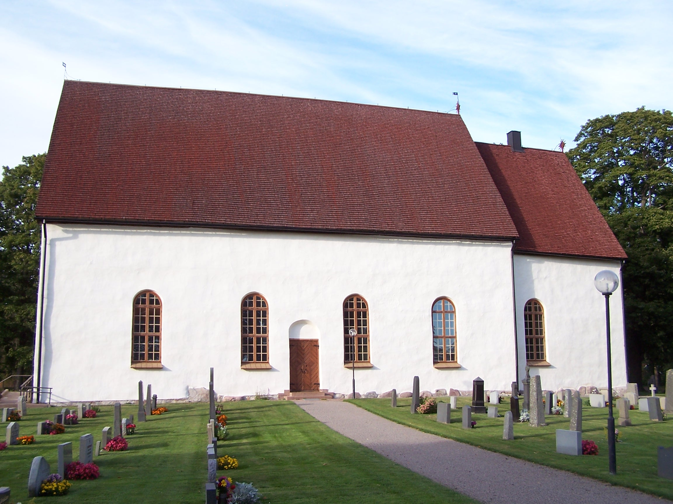 Arby church, Sweden - Exterior